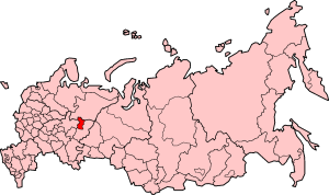 map of Russia with Komi-Permyak district.